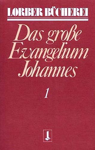 Cover Page of Das große Evangelium Johannes, 1996